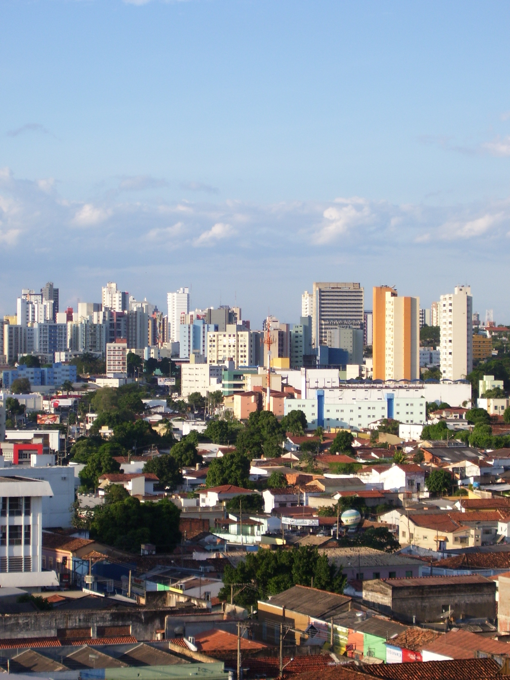 View of Cuiabá, Mato Grosso, Brazil.